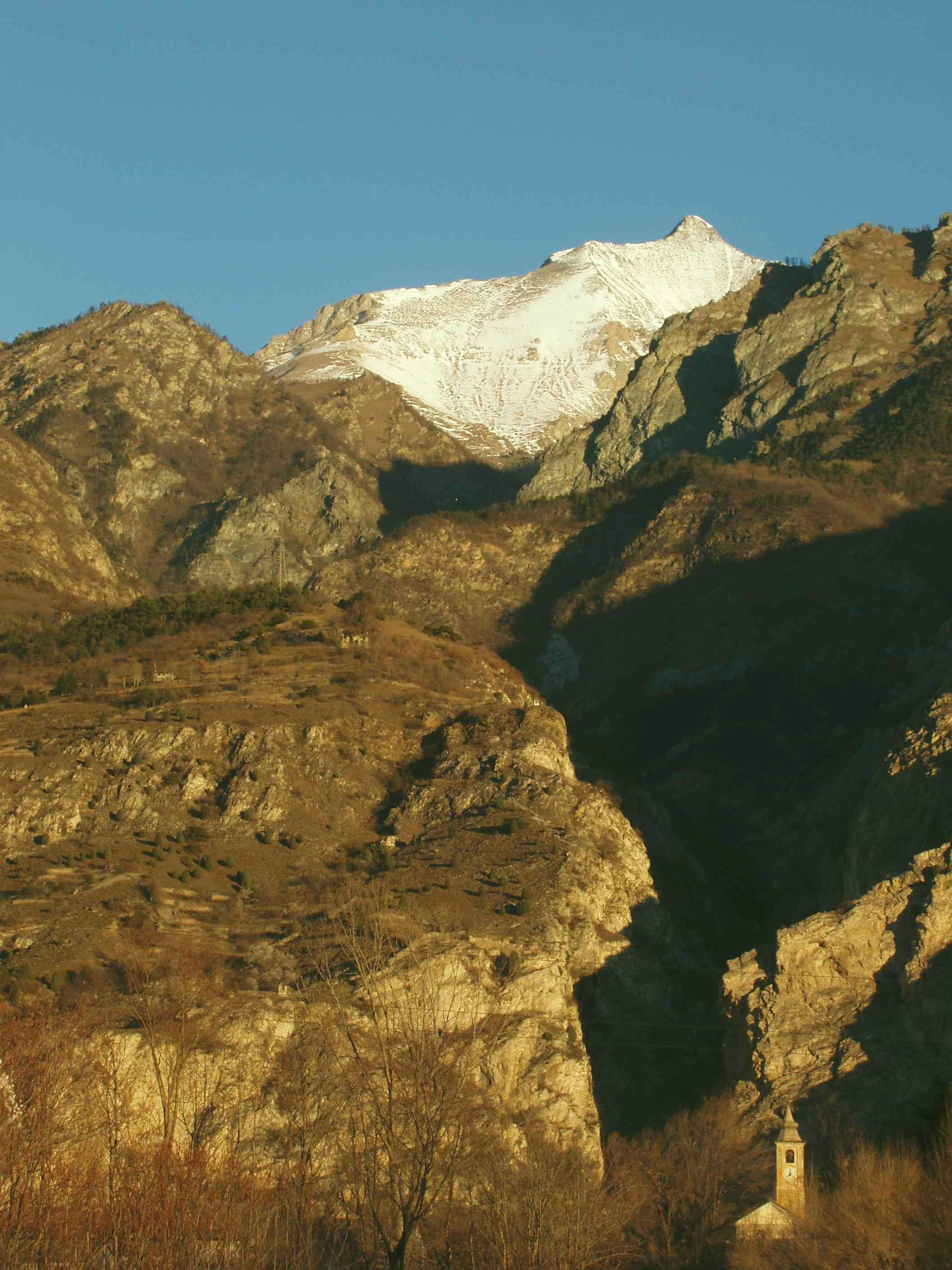 Nature park of Orrido di Foresto (Piedmont, Italy)